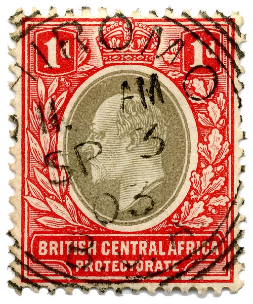 Scan of British Central Africa 1p stamp of 1903